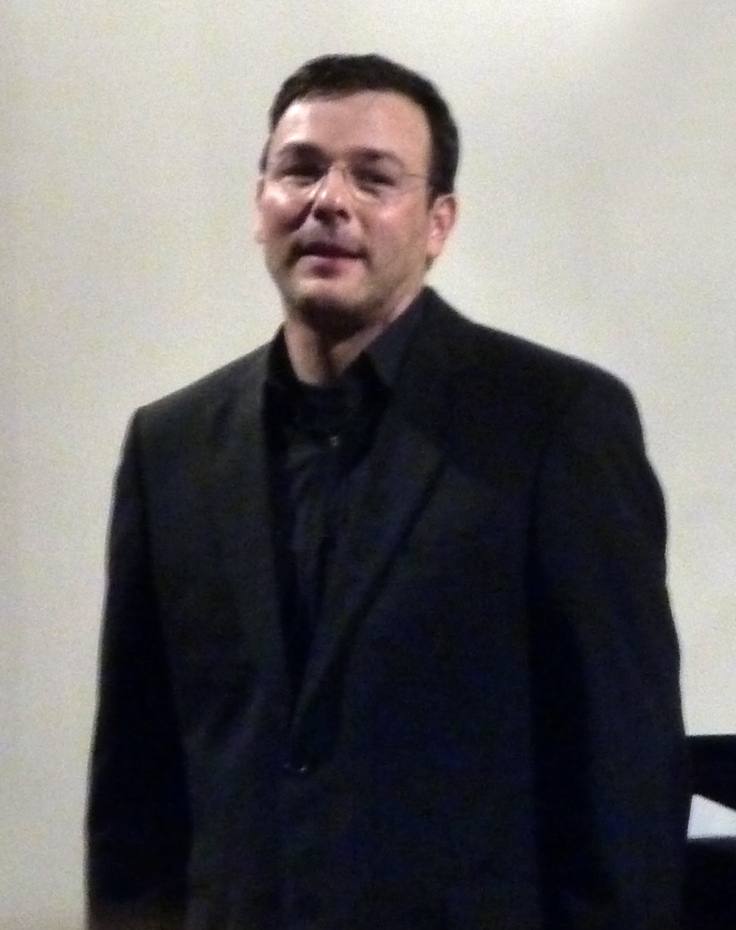 Andreas Scholl taking a bow after a concert in Freiburg, Germany, on September 20, 2010.